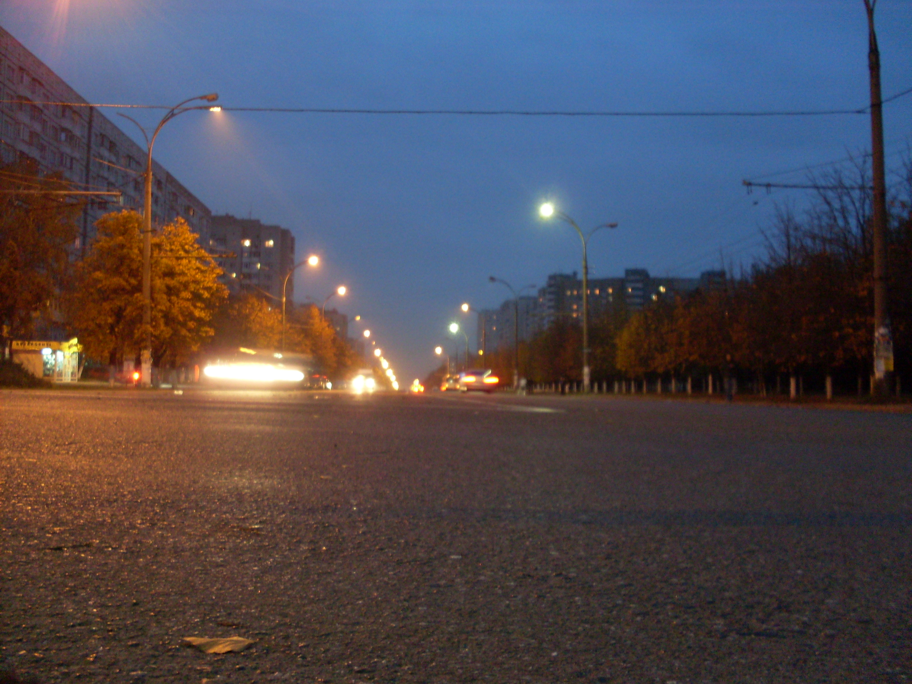 Alexandru cel Bun street of Chişinău. Nocturn photo.